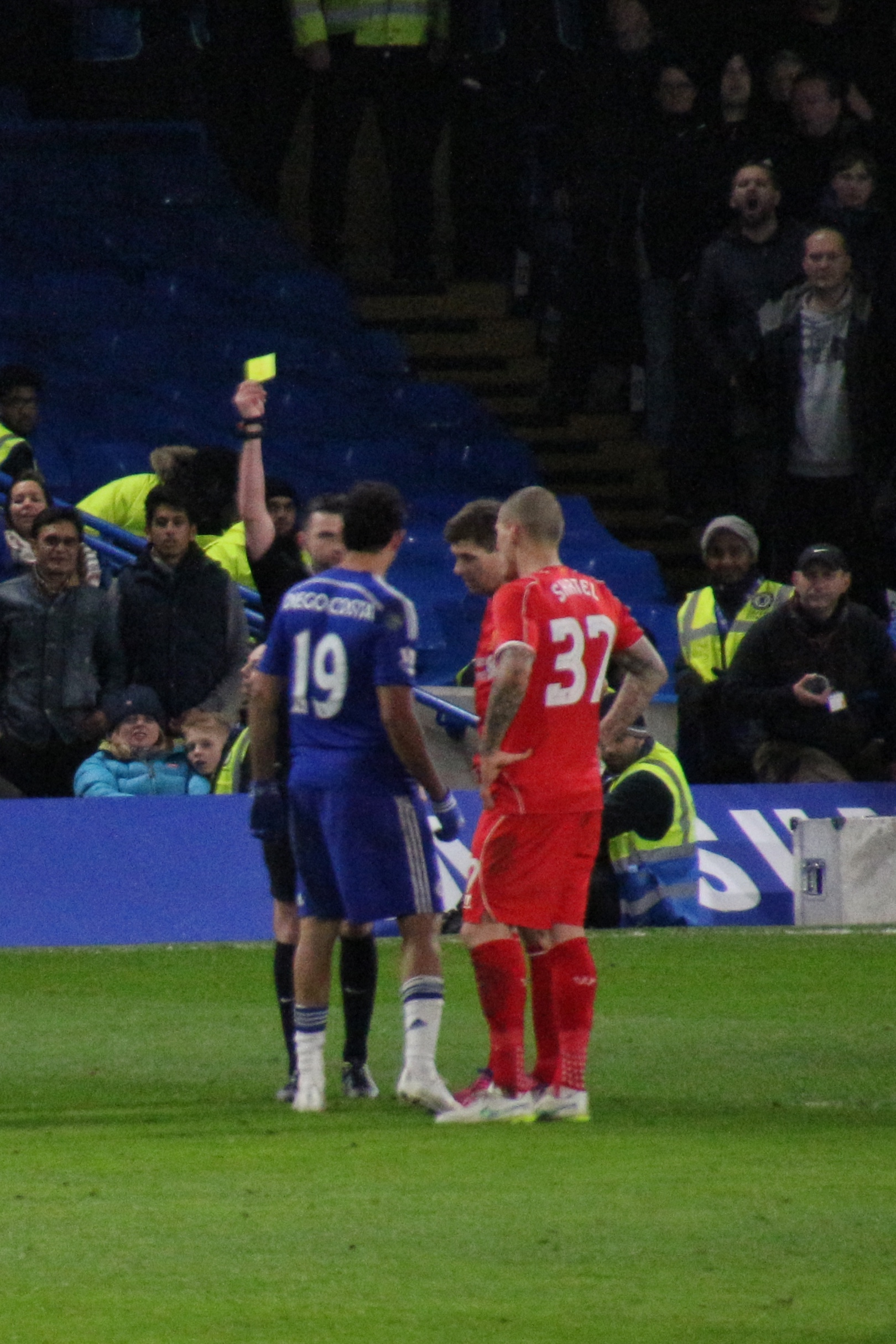 Chelsea 1 lLiverpool 0 (2-1 agg) Capital One Cup semi final 2nd leg On our way to Wembley!